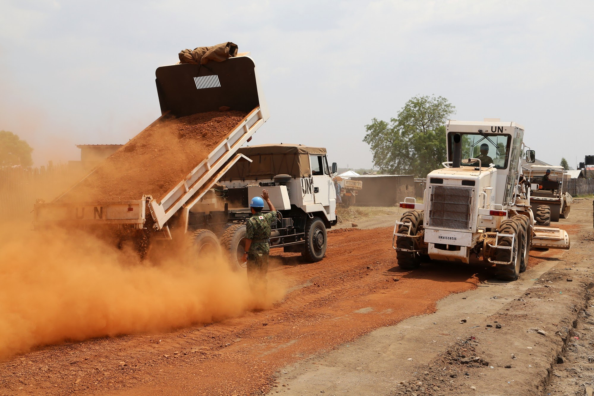 Title 25.3.4 ジュバ市ナバリ地区コミュニティ道路整備.jpg Album 国際平和協力活動等（及び防衛協力等） 国連南スーダン共和国ミッション 道路整備